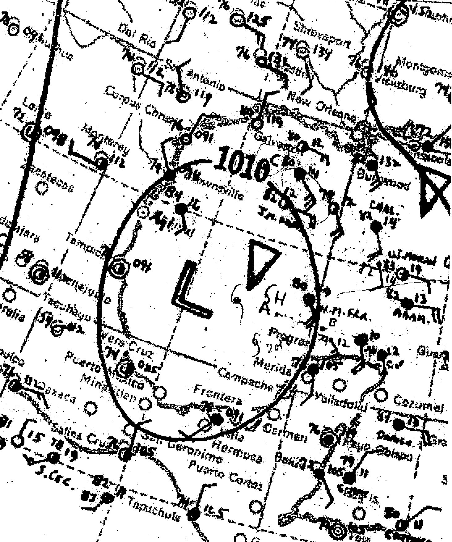 Surface analysis of Tropical Storm 3 of the 1933 Atlantic hurricane season.